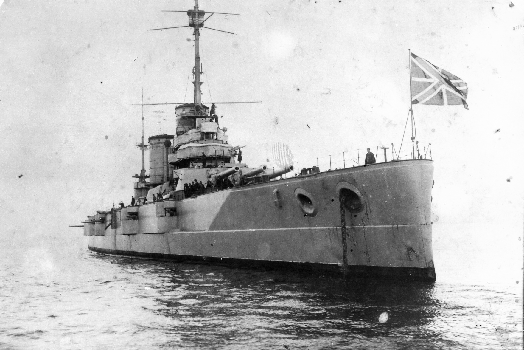 Imperial Russian battleship Petropavlovsk.